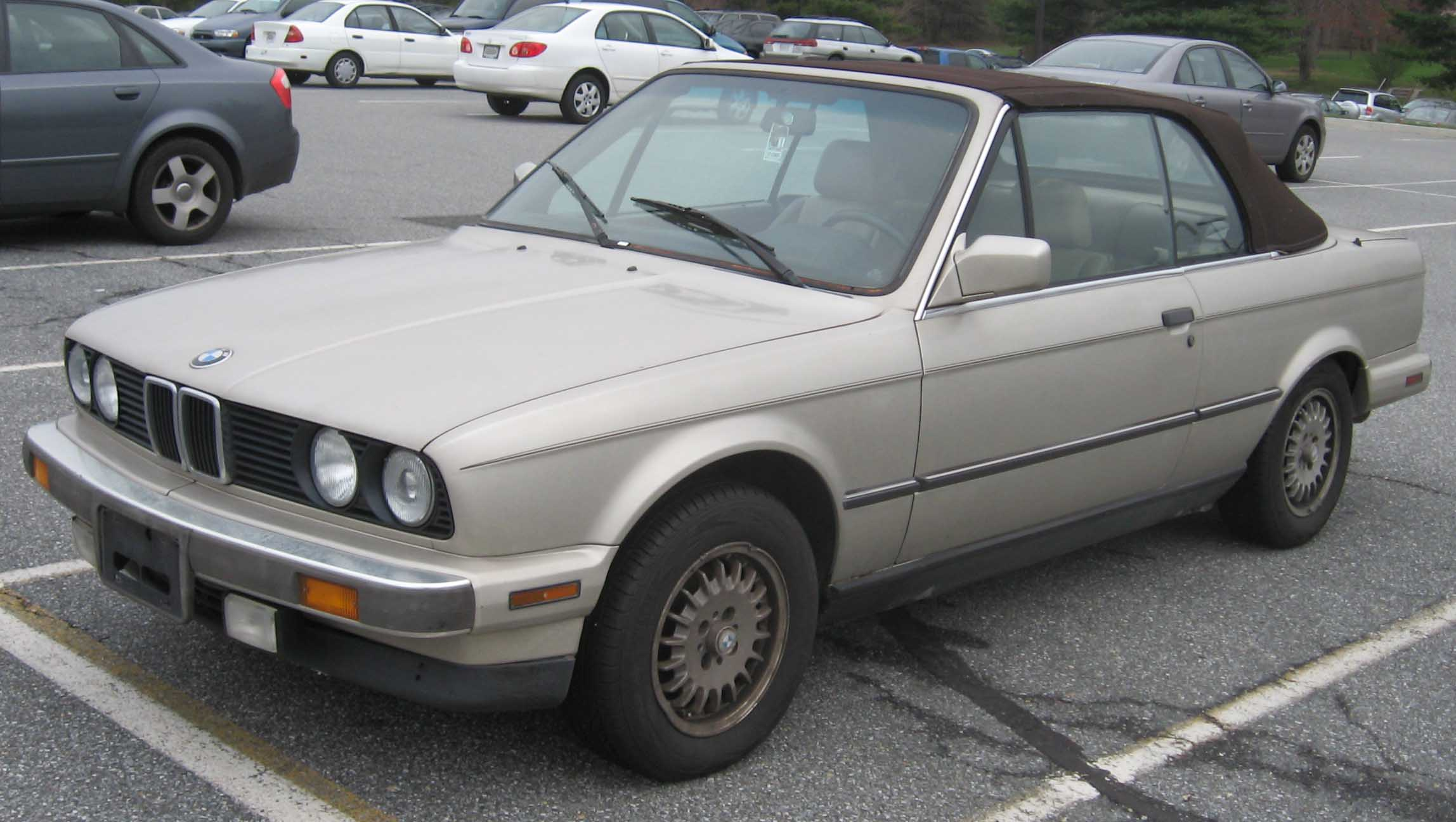 BMW 3-Series photographed in College Park, Maryland, USA.